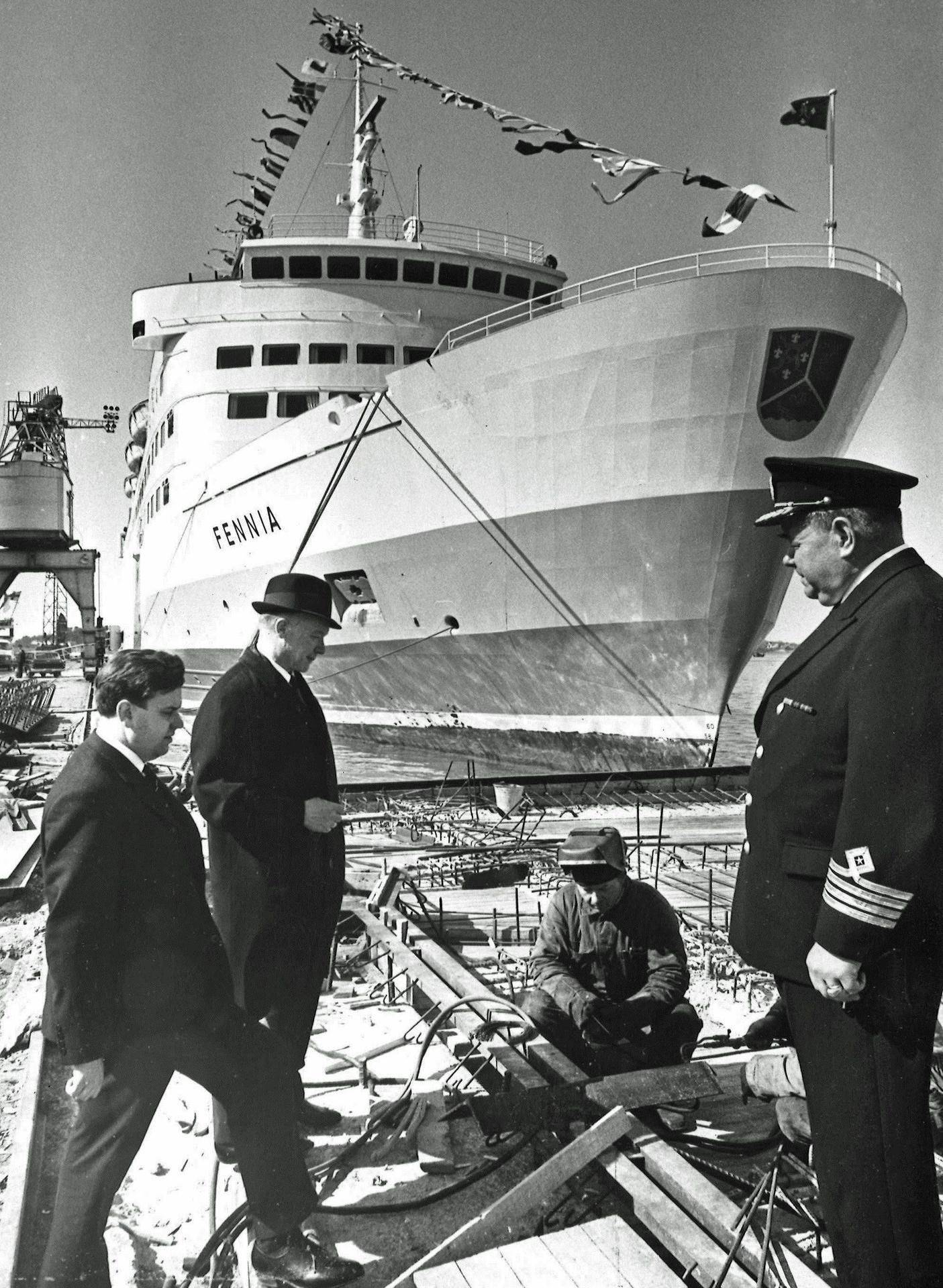 Photograph of Fennia ship at Turku harbour. In the foreground, Bengt Pettersson, Nils Wetterstein and captain Hjalmar Lundström look at the construction of the pier.